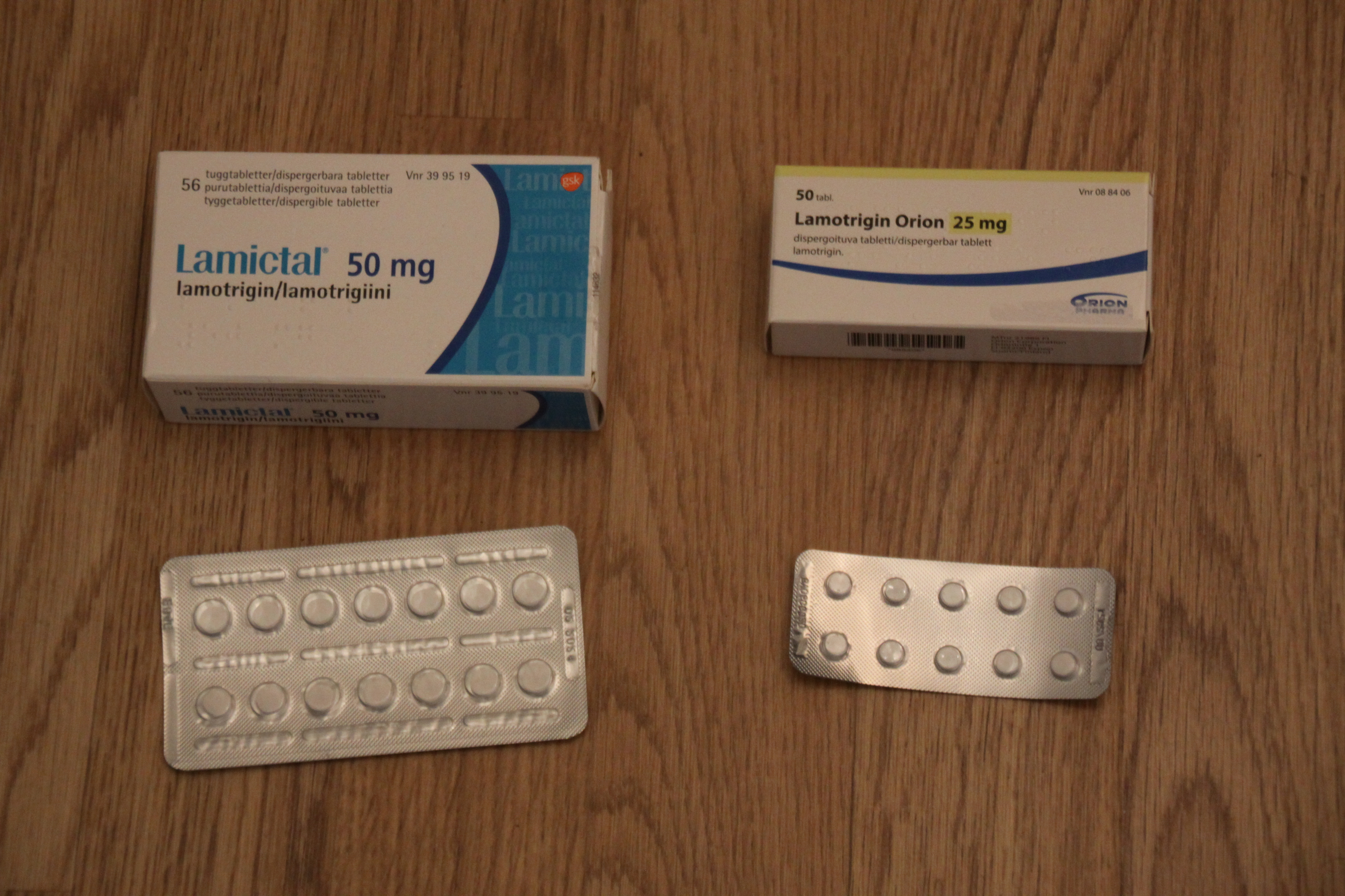 Lamotrigine products sold in Finland.